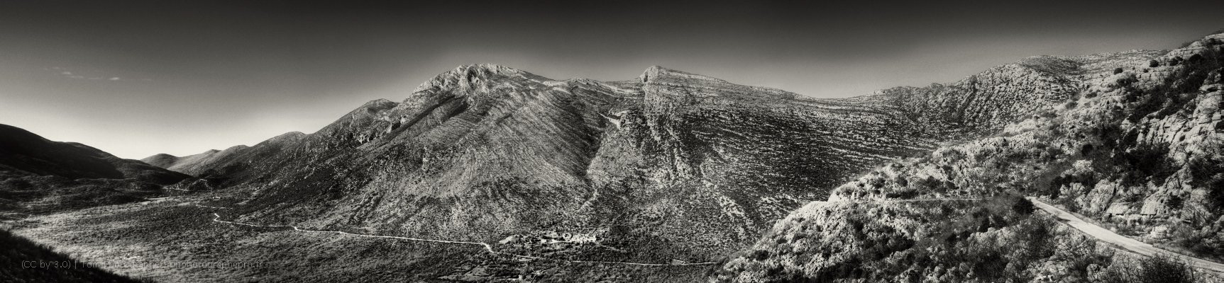 Orahov Do village black and white panorama. Near Popovo polje, Herzegovina